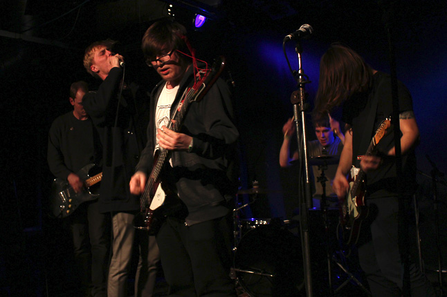 English indie rock band Eagulls.